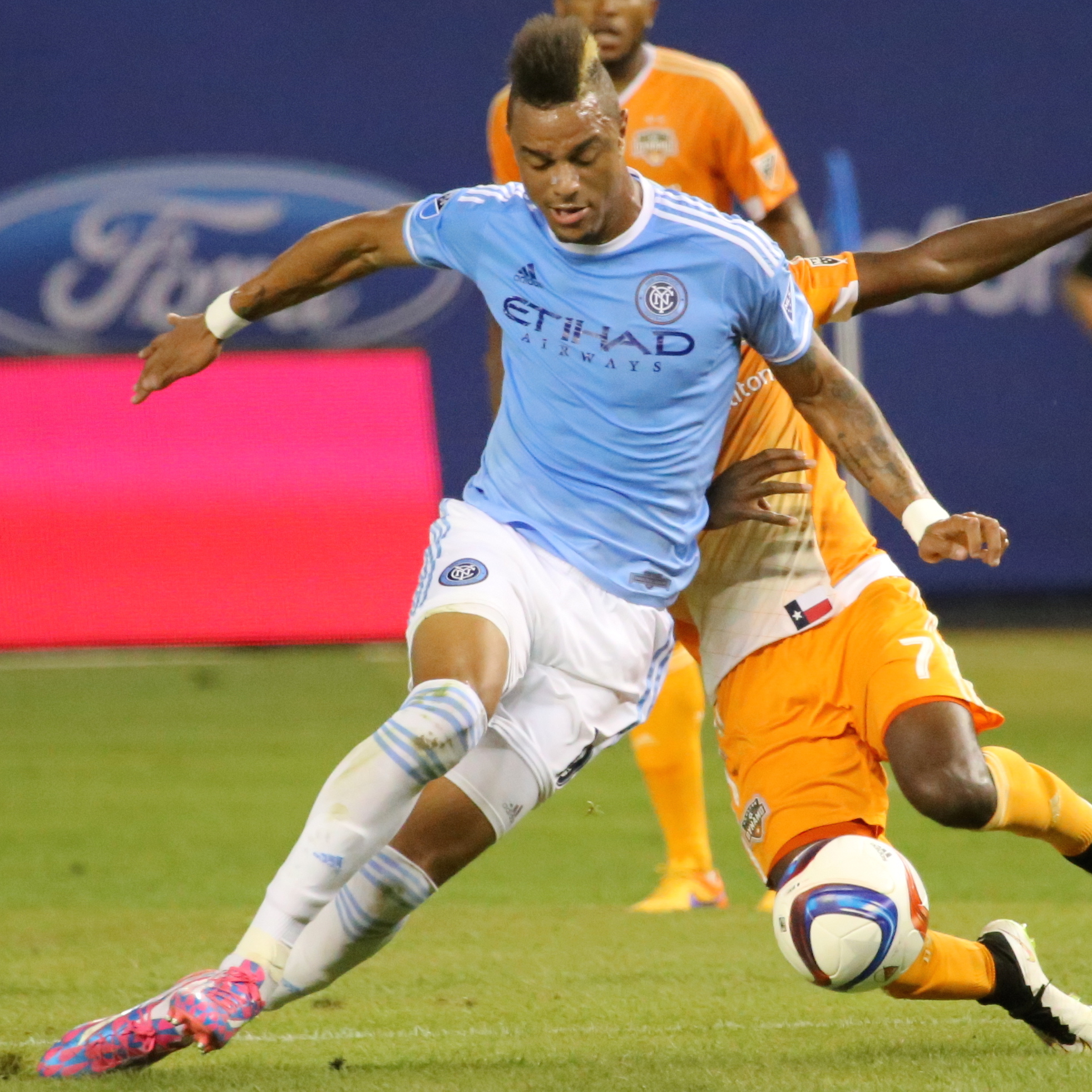 Khiry Shelton battles for the ball.